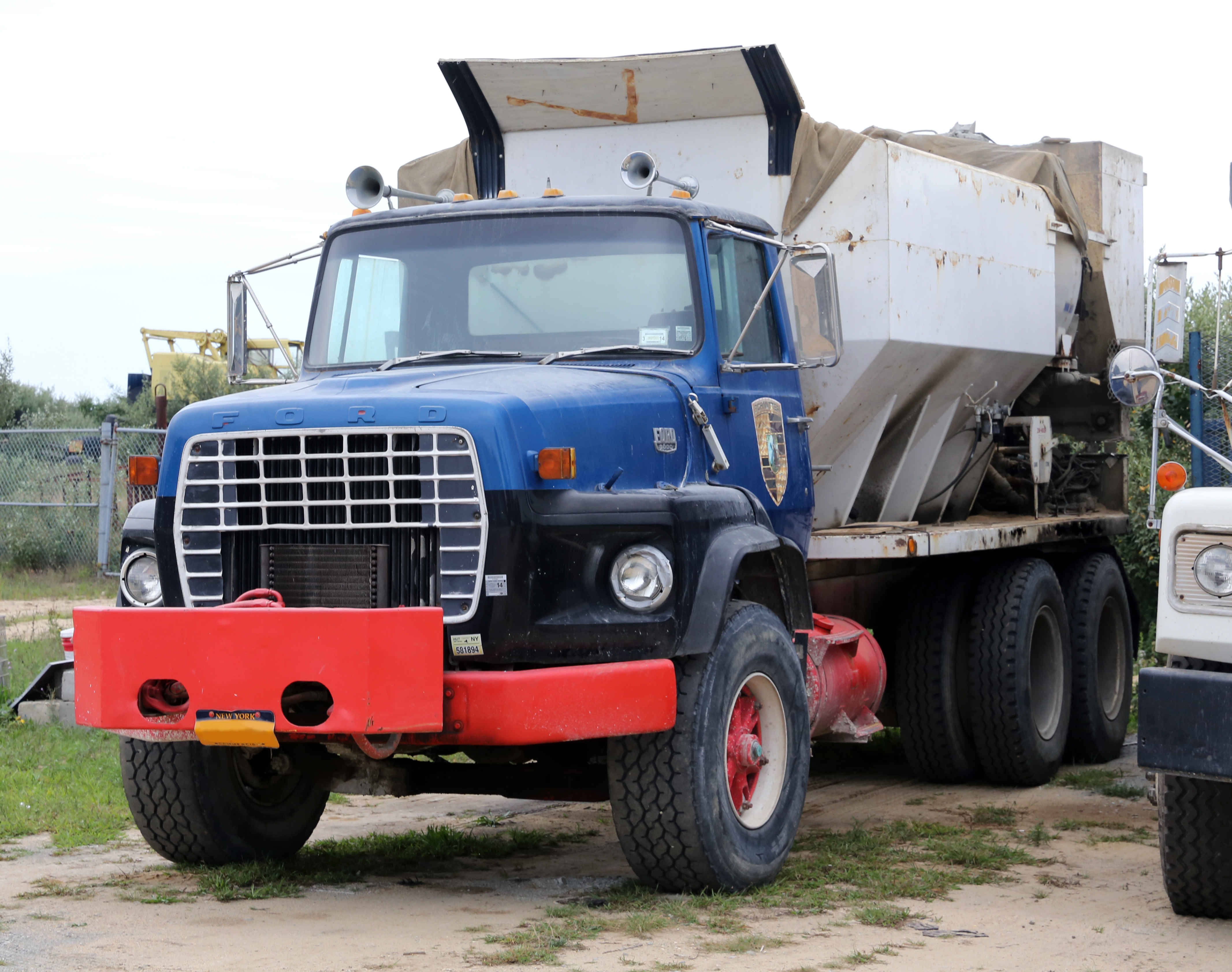 1981 Ford LTS 9000 cement mixer in East Hampton, NY. This has a 372 in (9,400 mm) wheelbase and a six-cylinder Cummins diesel engine (code W), assembled in Louisville, KY.